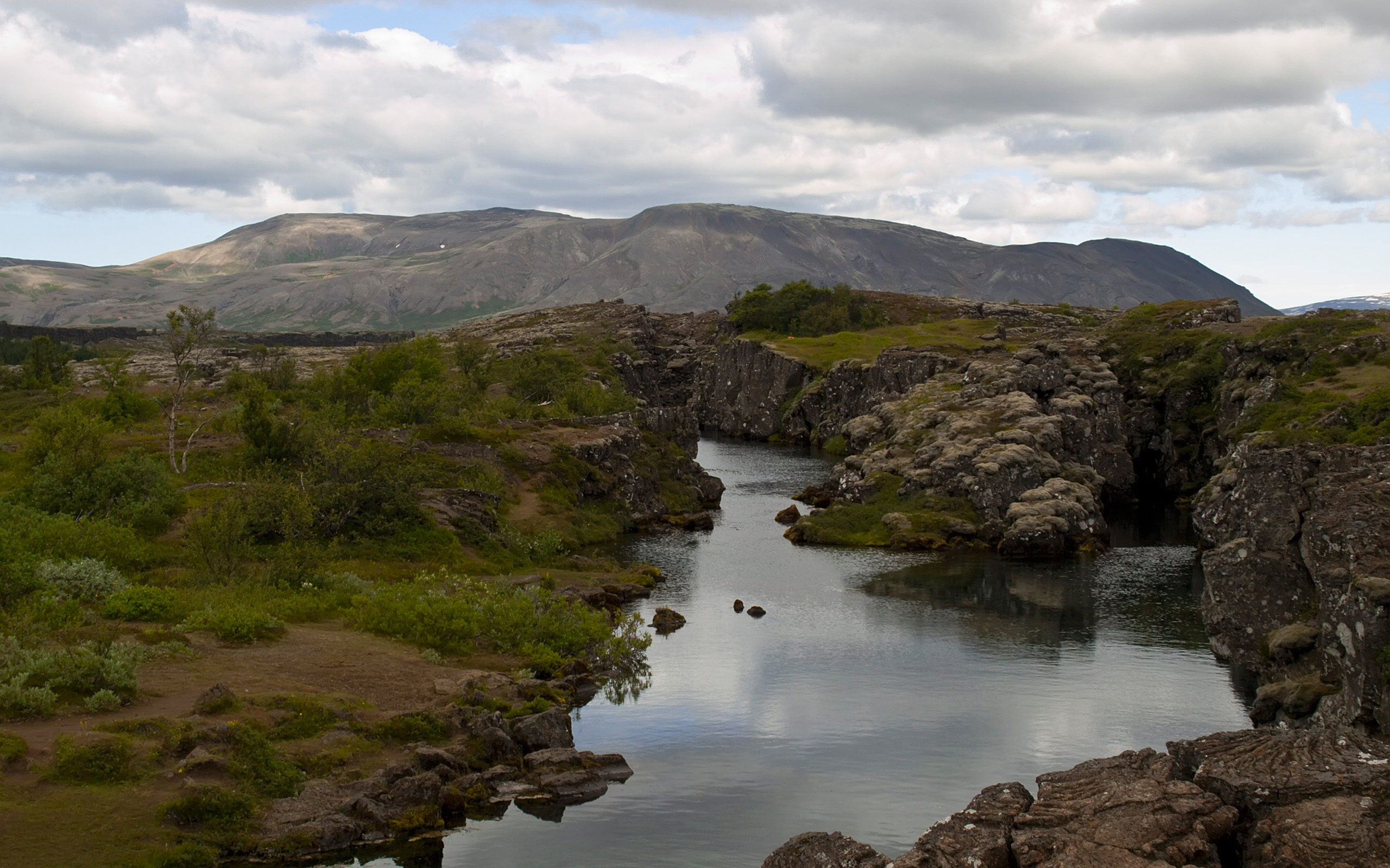 Almost the same view as this except for the season.